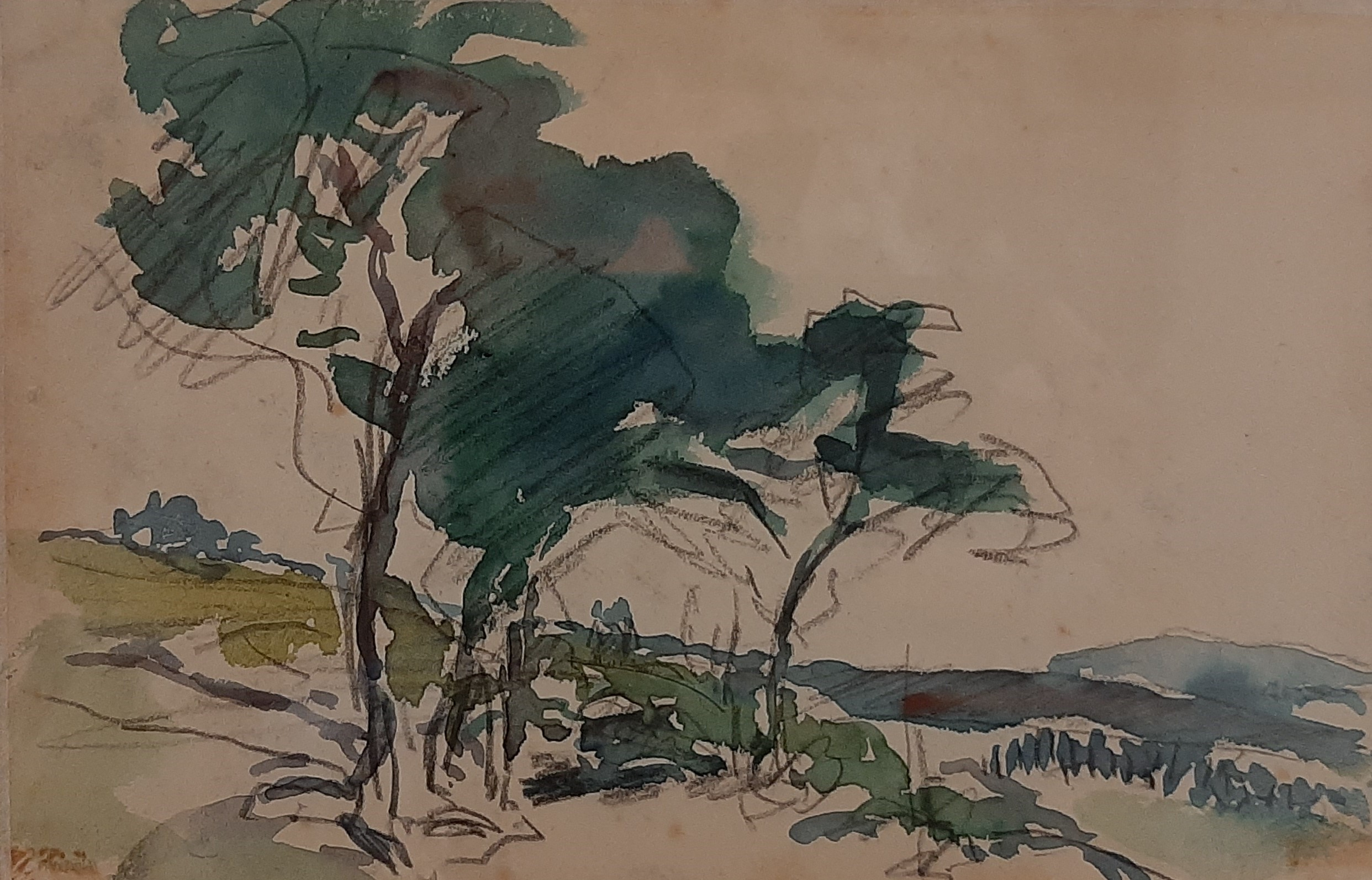 Johan Bartold JONGKIND , Virieu, 1875